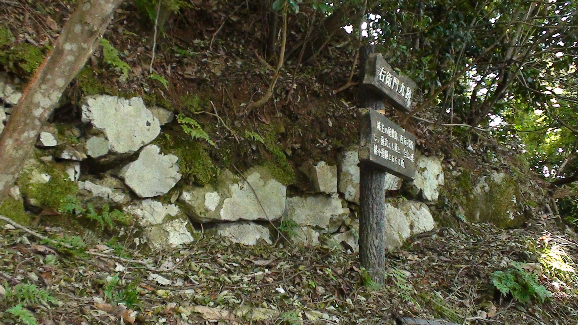 At the ruin of Yagami Castle, on Mount Takashiro, Sasayama, Hyogo, Japan.